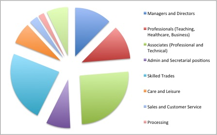 An exploding Pie Chart detailing the breakdown of type of employment within the Parish of Culmington according to census data from 2011.